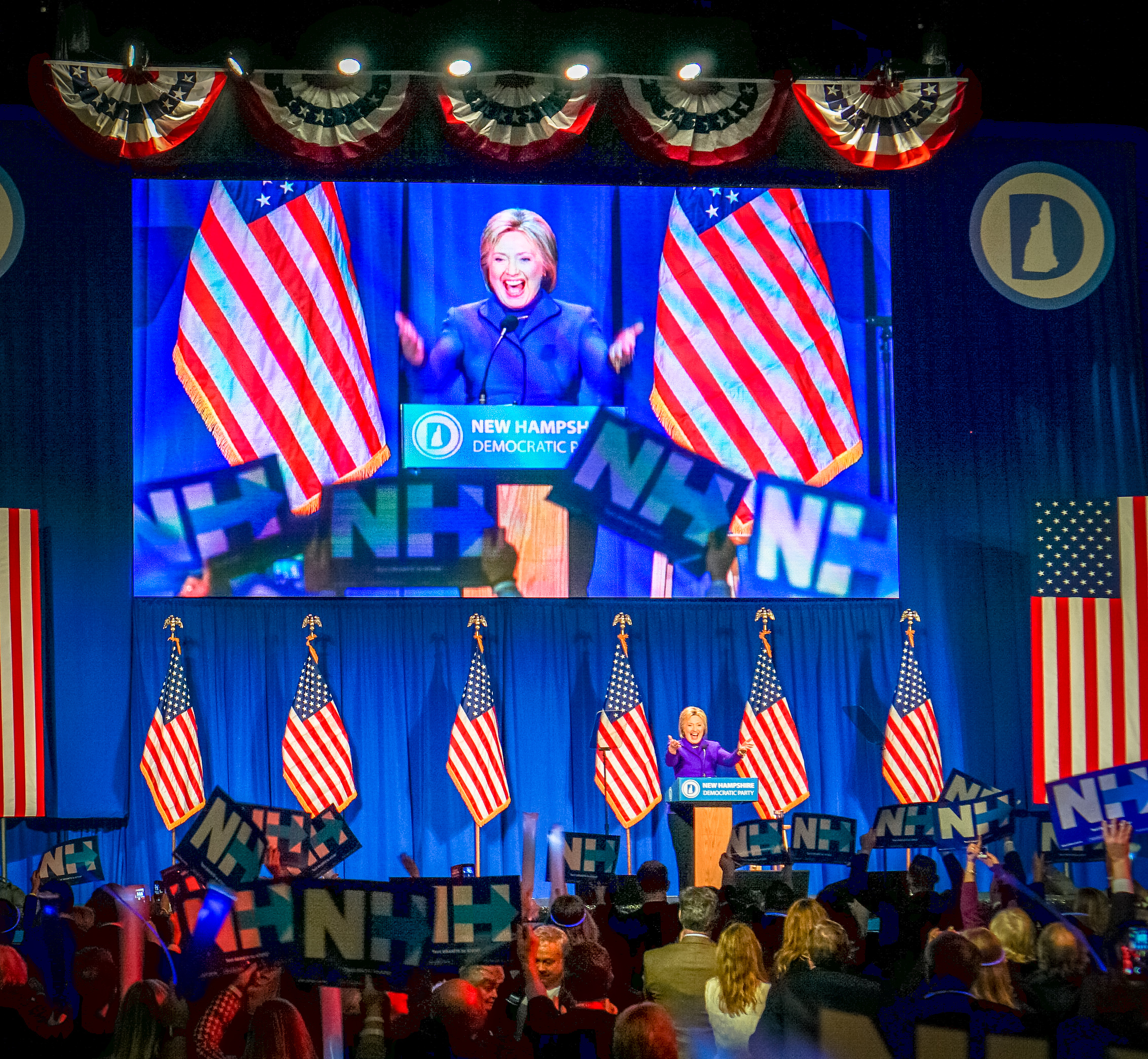 2016.02.05 Manchester New Hampshire, USA 02397